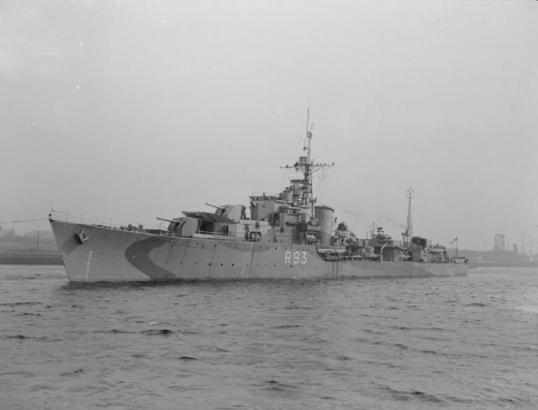 Photograph of British destroyer HMS Vigilant (R93) on the River Tyne.